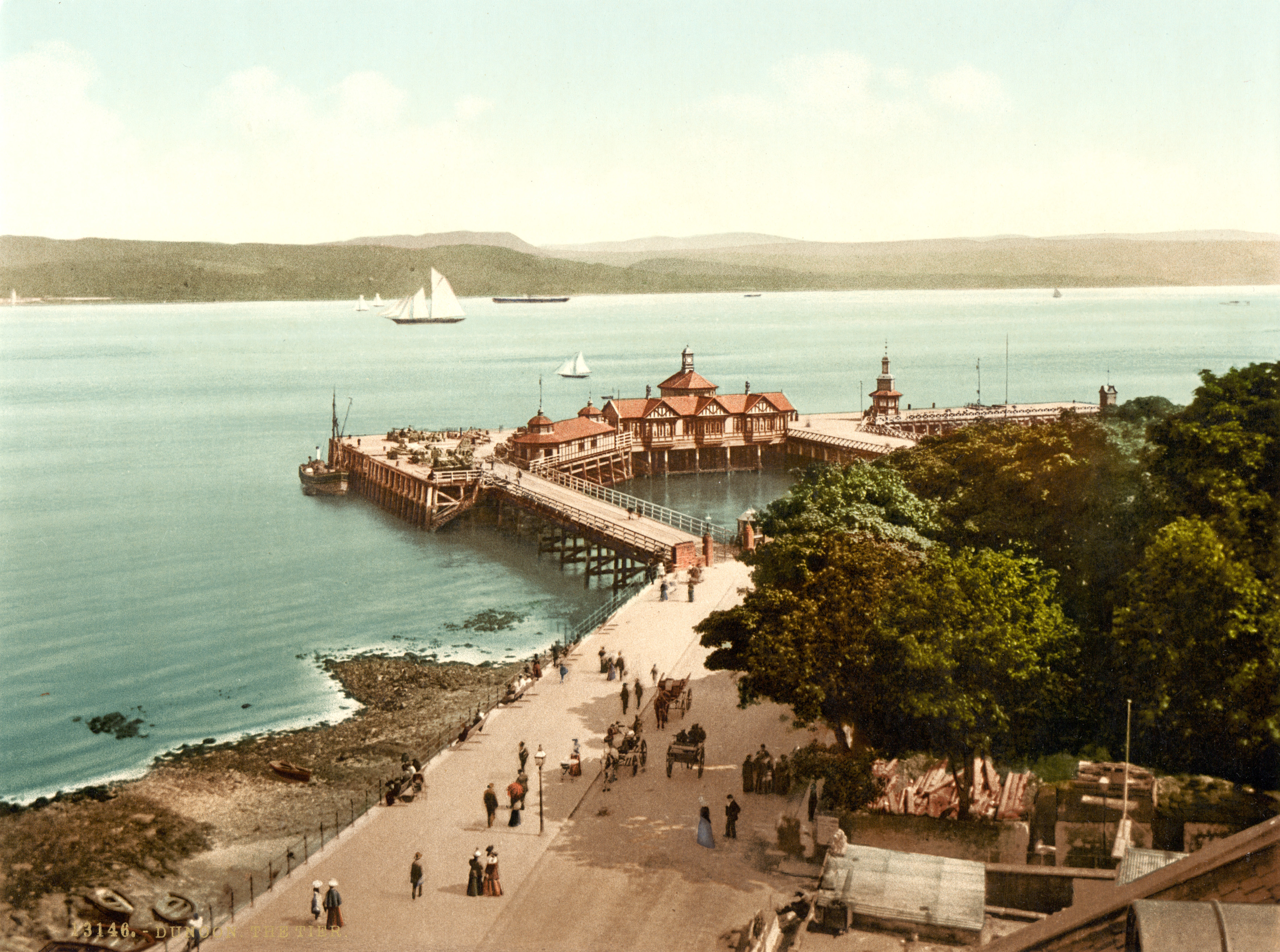 The pier, Dunoon, Scotland